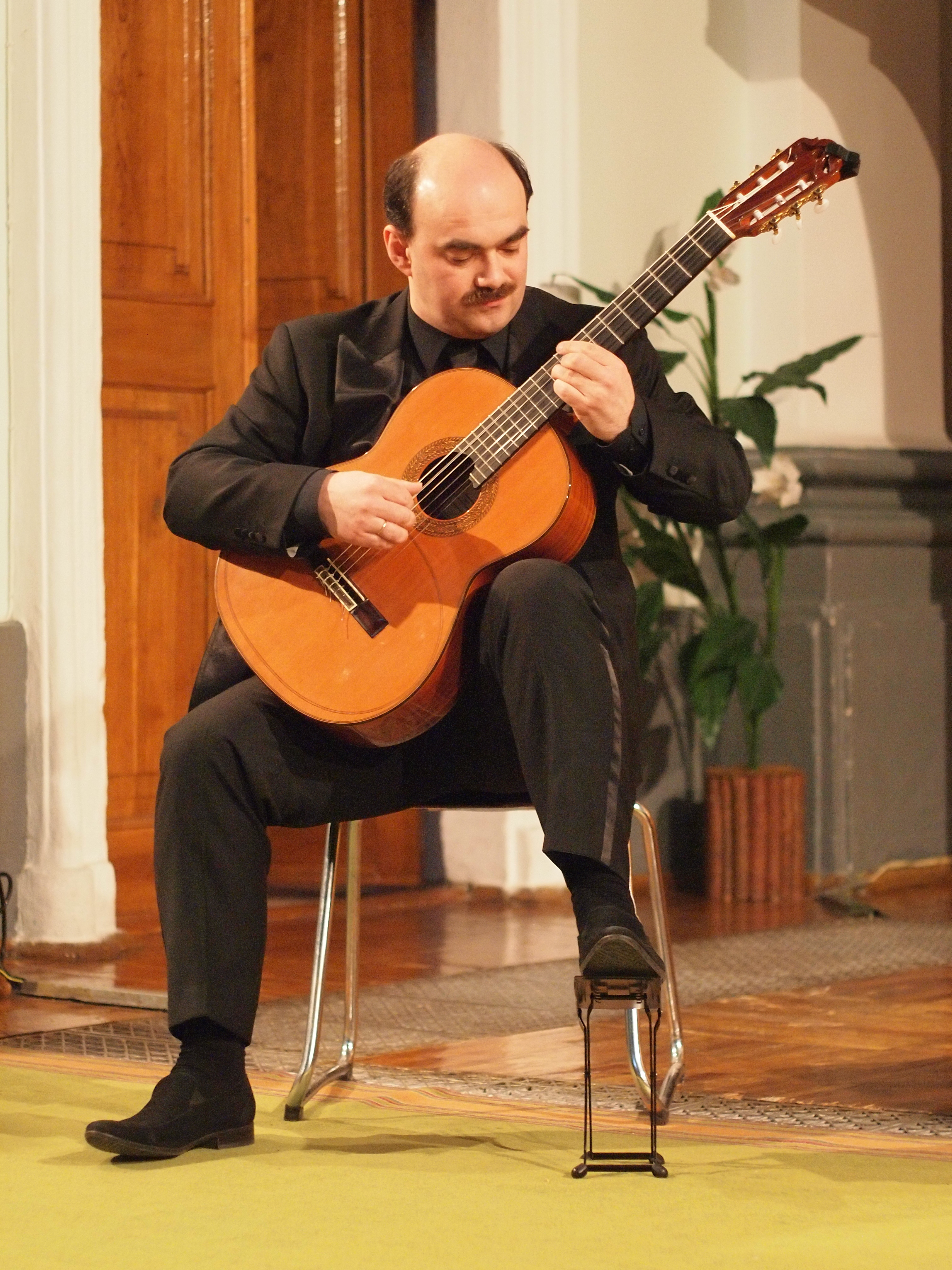 Ukrainian guitarist Andrey (Andrii) Ostapenko with his Dieter Hopf guitar in Bila Tserkva organ hall.